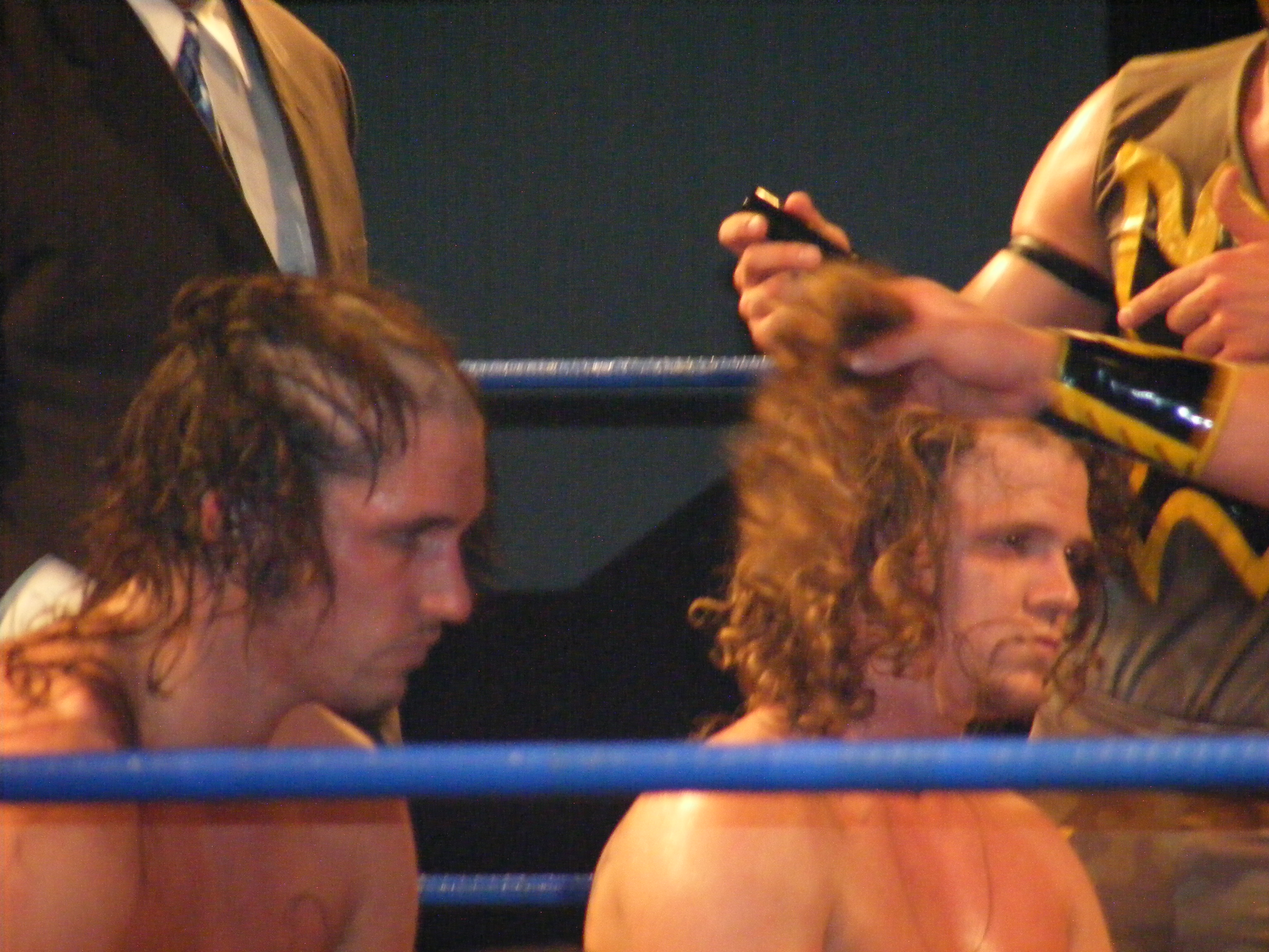 Professional wrestlers Chuck Taylor (left) and Icarus (right) having their heads shaved by The Colony, after losing a double Hair vs. Masks match at a Chikara show in Philidelphia on May 24, 2009.